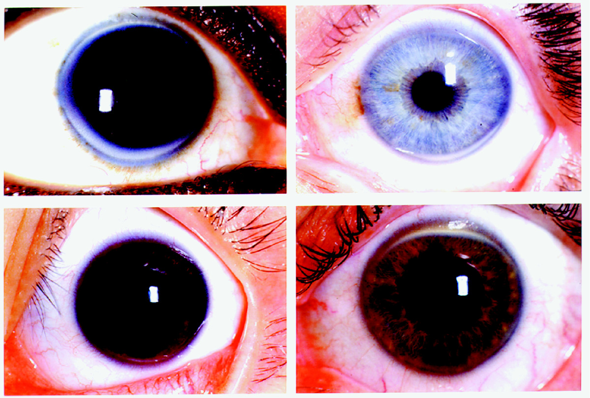 Corneal arcus. Four representative slides of corneal arcus. Arcus deposits tend to start at 6 and 12 o'clock and fill in until becoming completely circumferential. There is a thin clear section separating the arcus from the limbus known as the lucid interval of Vogt. Zech and Hoeg Lipids in Health and Disease 2008 7:7